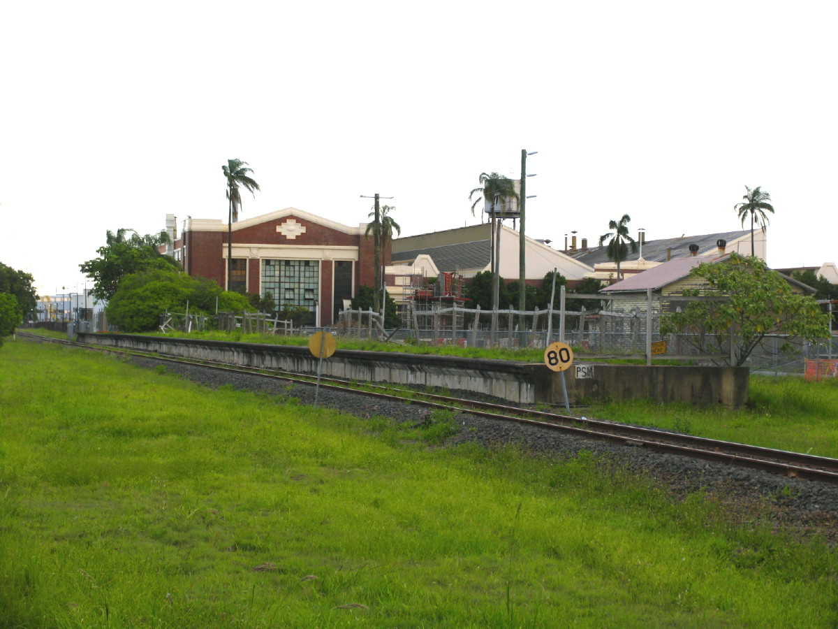 The original and abandoned Eagle Farm railway station in Brisbane, Australia.